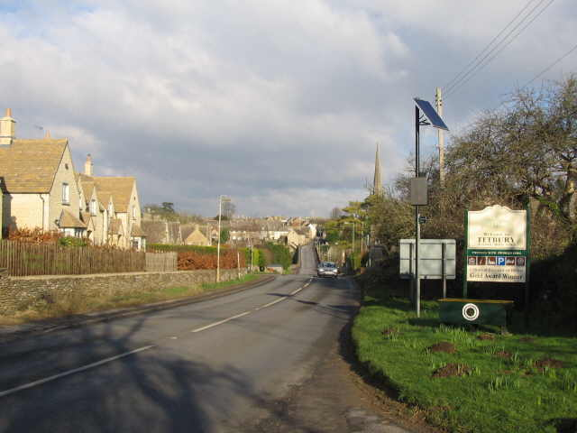 Welcome to Tetbury A view looking to the northeast along the A433 Bath Road as it enters Tetbury.